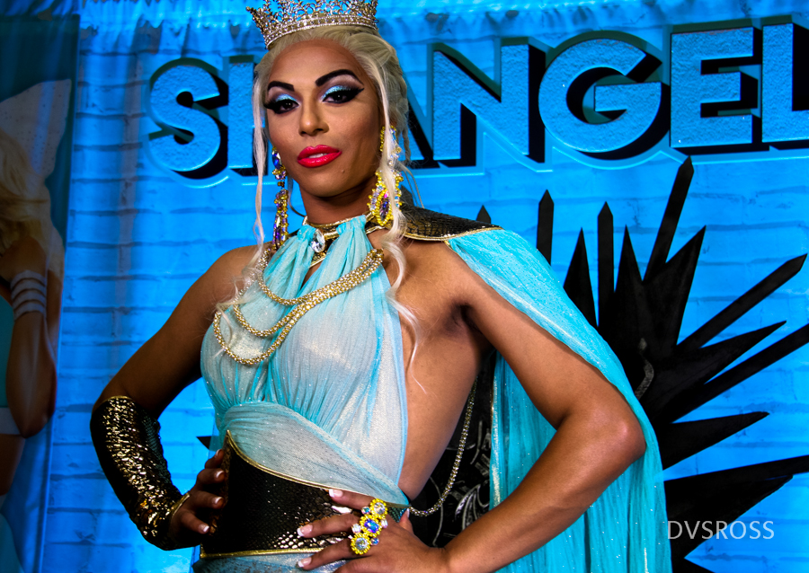 Shangela Laquifa Wadley at RuPaul's DragCon LA 2018